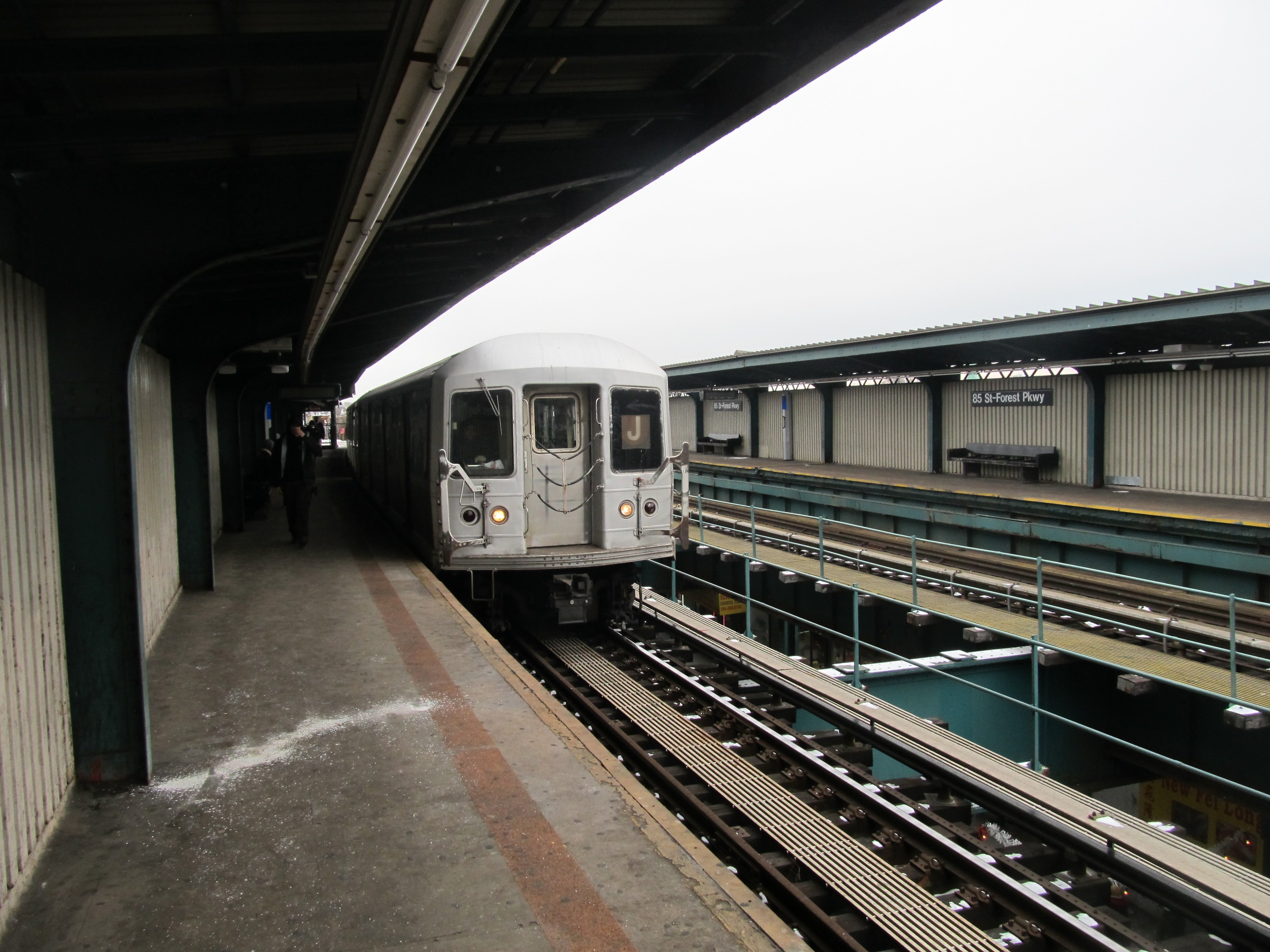 Manhattan-bound J arriving at 85th Street – Forest Parkway station in December 2017